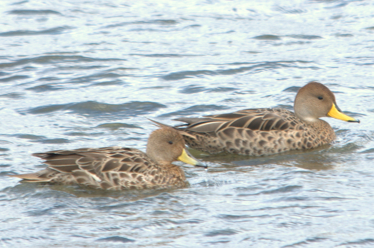 A Yellow-billed Pintail in Puerto Natales, Patagonia, Chile.